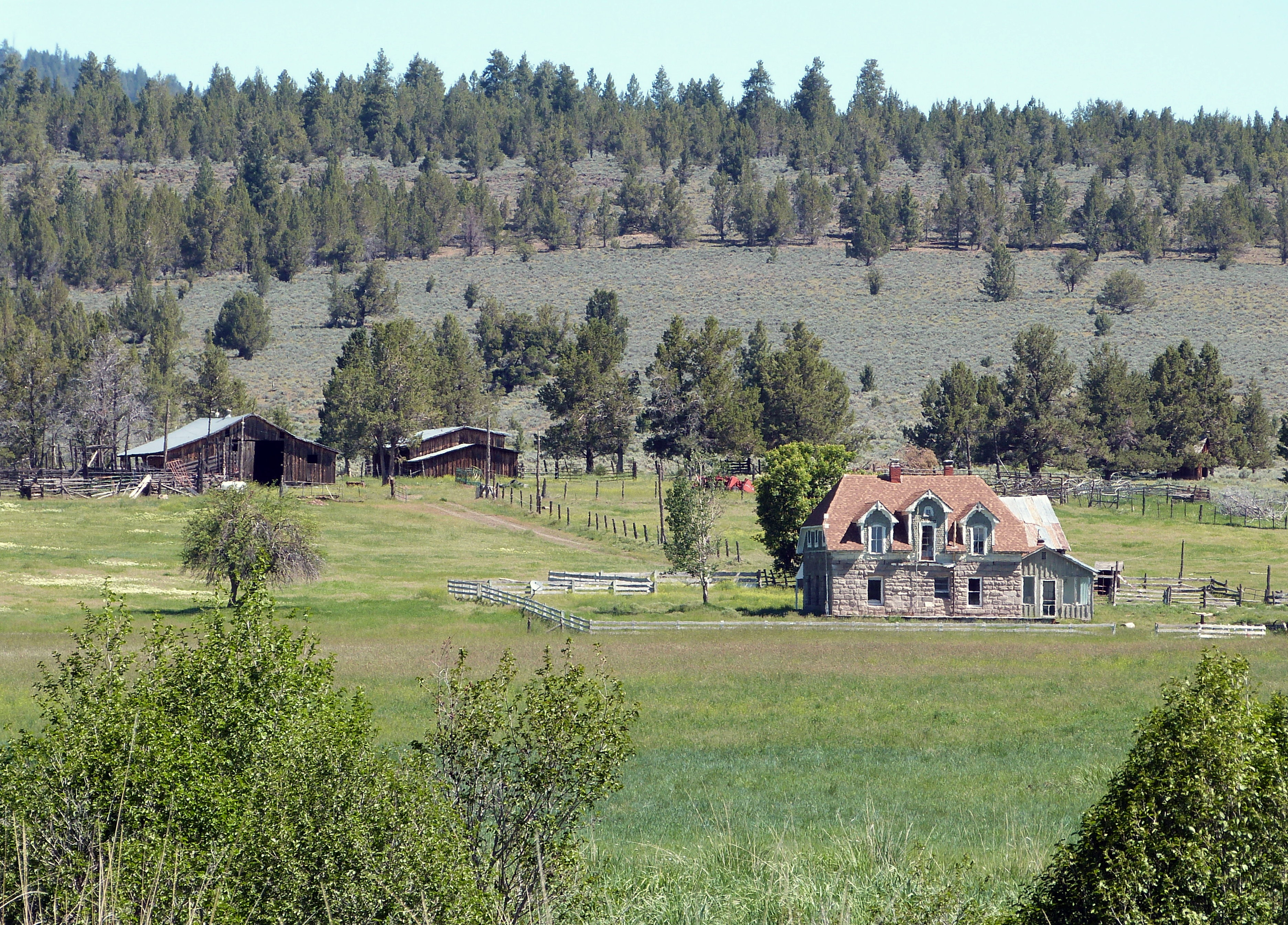 The historic Roba Ranch (built 1910), located at 66953 Roba Ranch Road near Paulina, Oregon, United States, is listed on the US National Register of Historic Places.